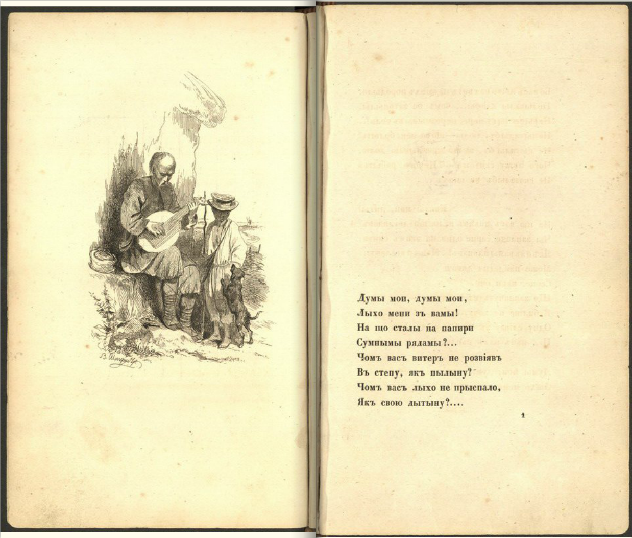 "Kobzar" by Vasily Sternberg on on forepage of the first edition (1840 year) of "Kobzar" book by Taras Shevchenko